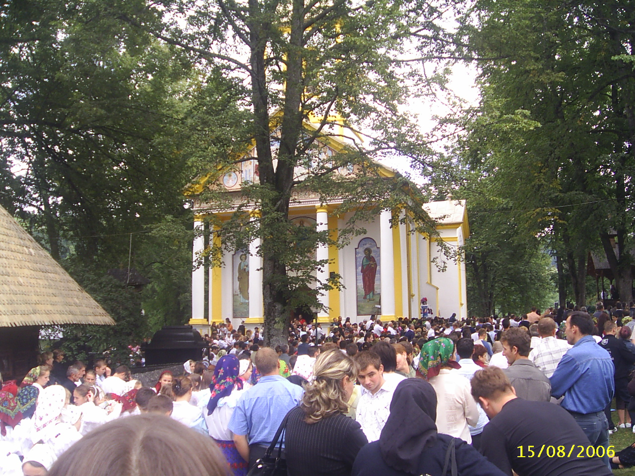 pilgrimage at the Moisei monastery (Maramureș County, Romania) on the holiday of the Assumption of the Holy Virgin